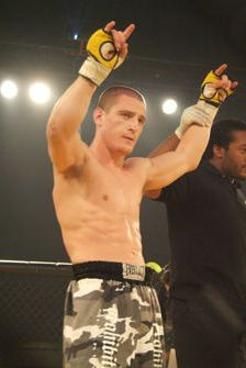 Personal Image